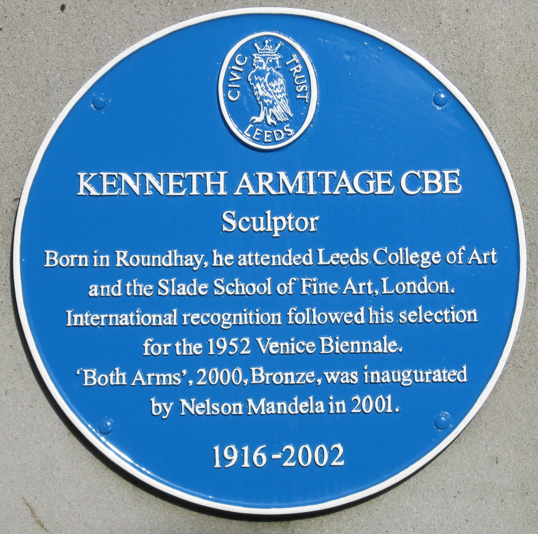 Blue plaque in Mandela Gardens, Leeds city centre, beside the sculpture "Both Arms". Kenneth Armitage, sculptor.